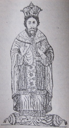 Bagrat IV, king of Georgia (11th century AD)